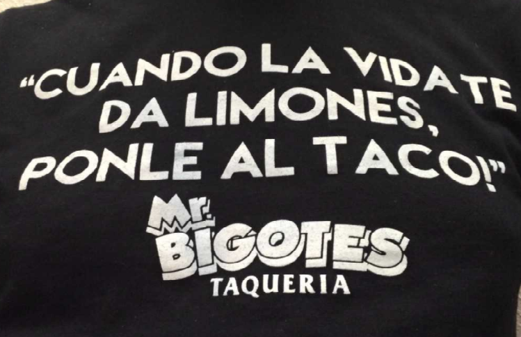 T-shirt showing the proverb "When life gives you lemons..." translated into Spanish, then twisted for advertising a taqueria